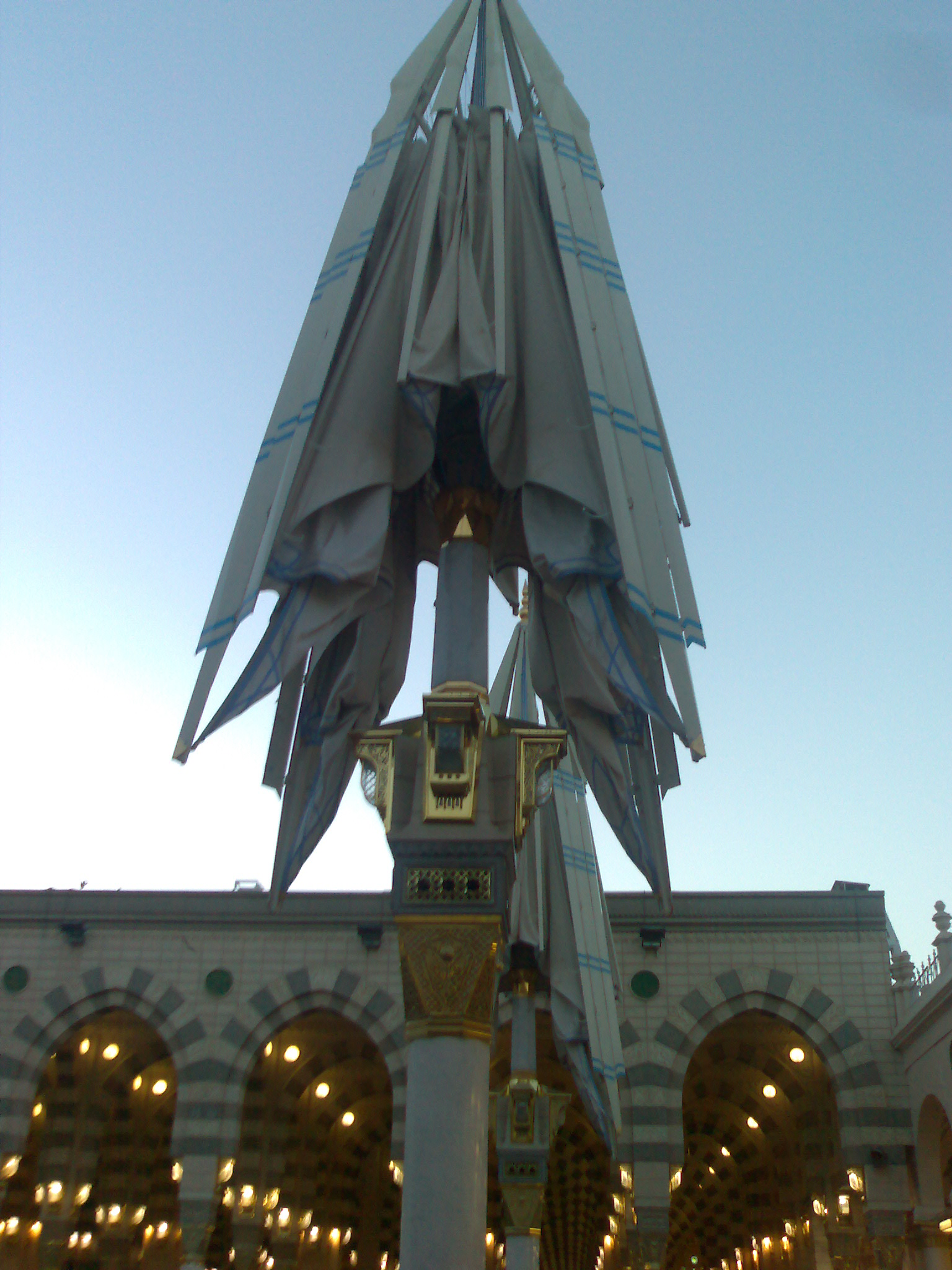 Sunshade 'umbrella' — on terrace at Al-Masjed Al-Nabawi (mosque), Saudi Arabia.